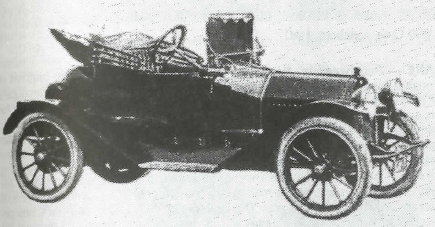 1912 Lambert automobile model 99-C roadster